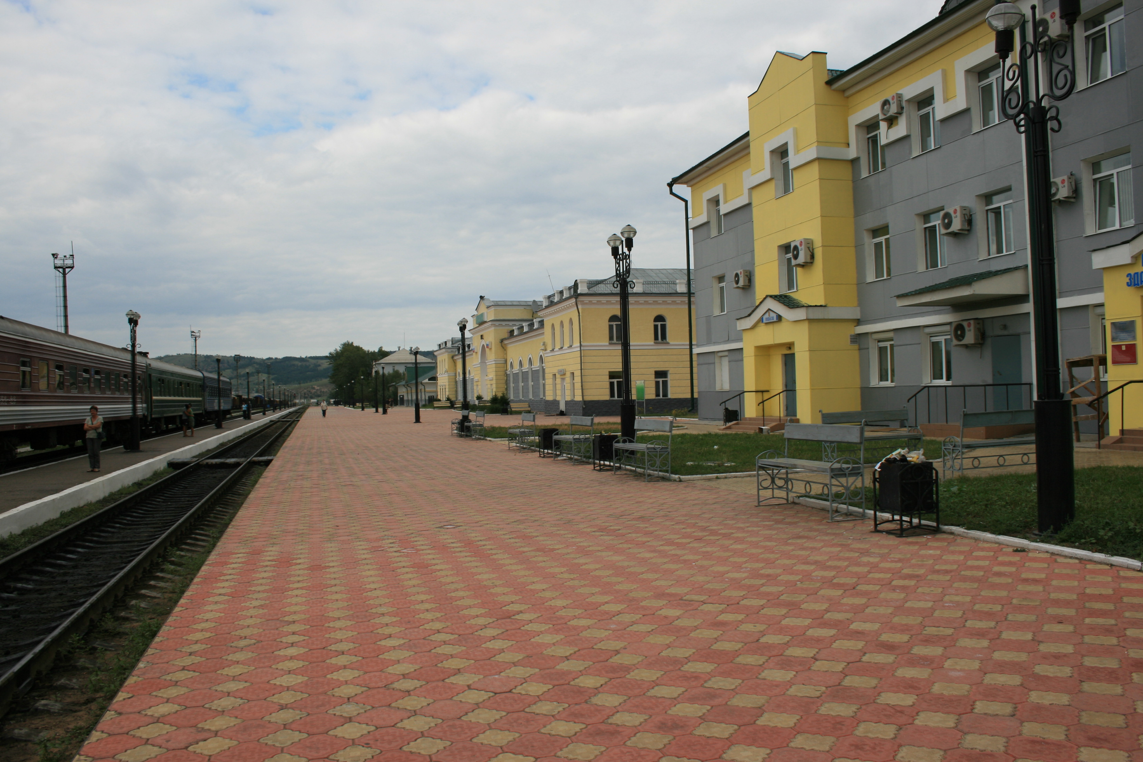 Naushki station (Mongolian border), Kyakhta rayon, Buryatia, Russia